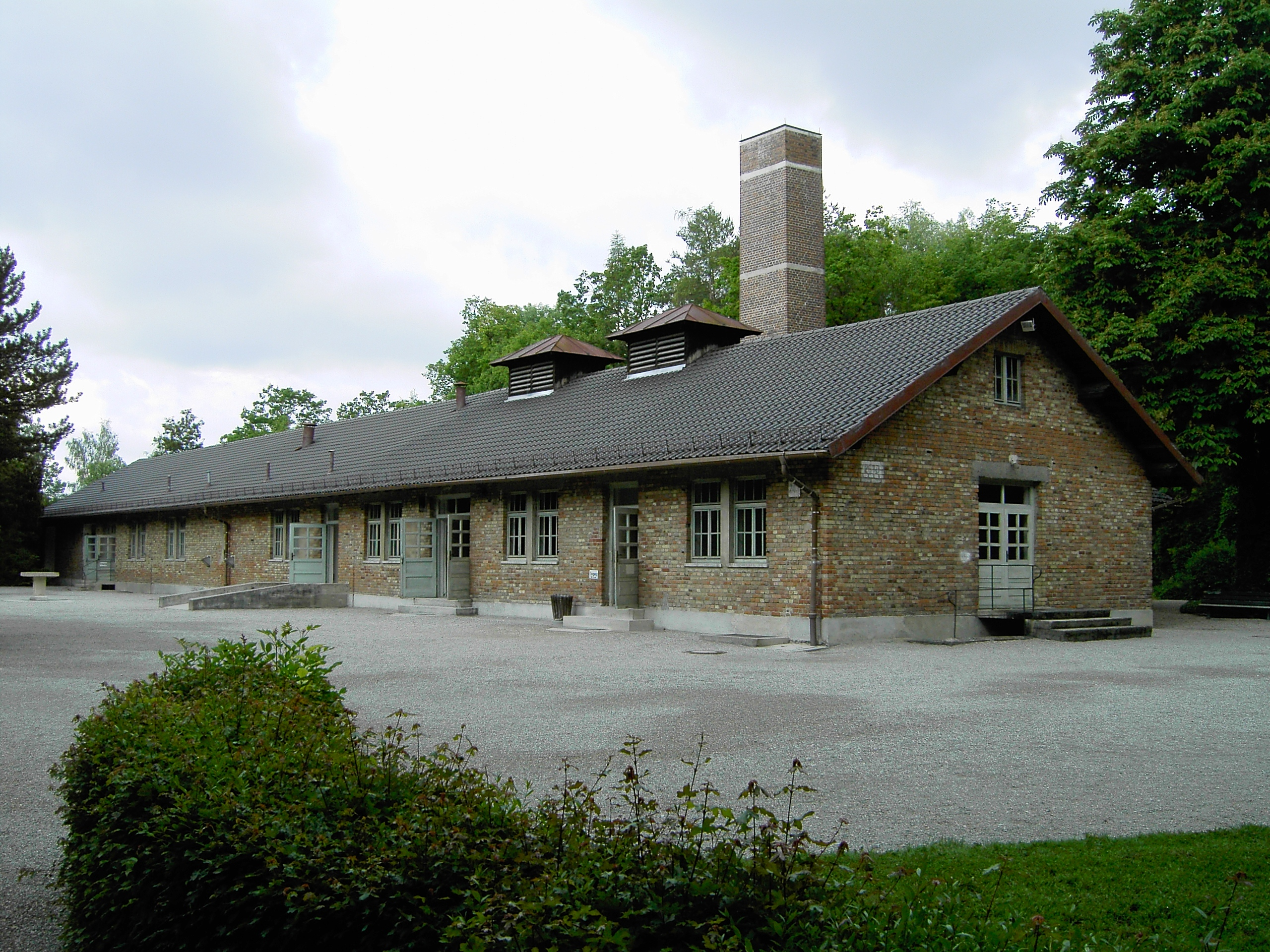 A photo of the Dachau Crematorium